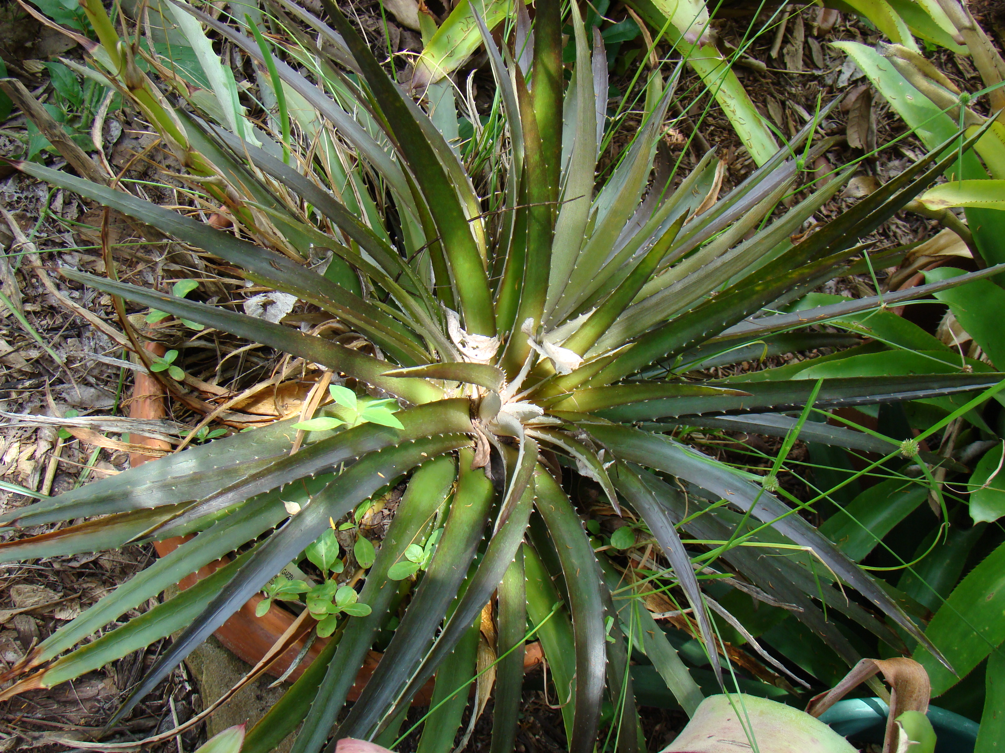 Dyckia 'Green' (Dyckia / Bromeliaceae) in the Bromeliad collection of the University Of South Florida Botanical Garden, Tampa, Florida.